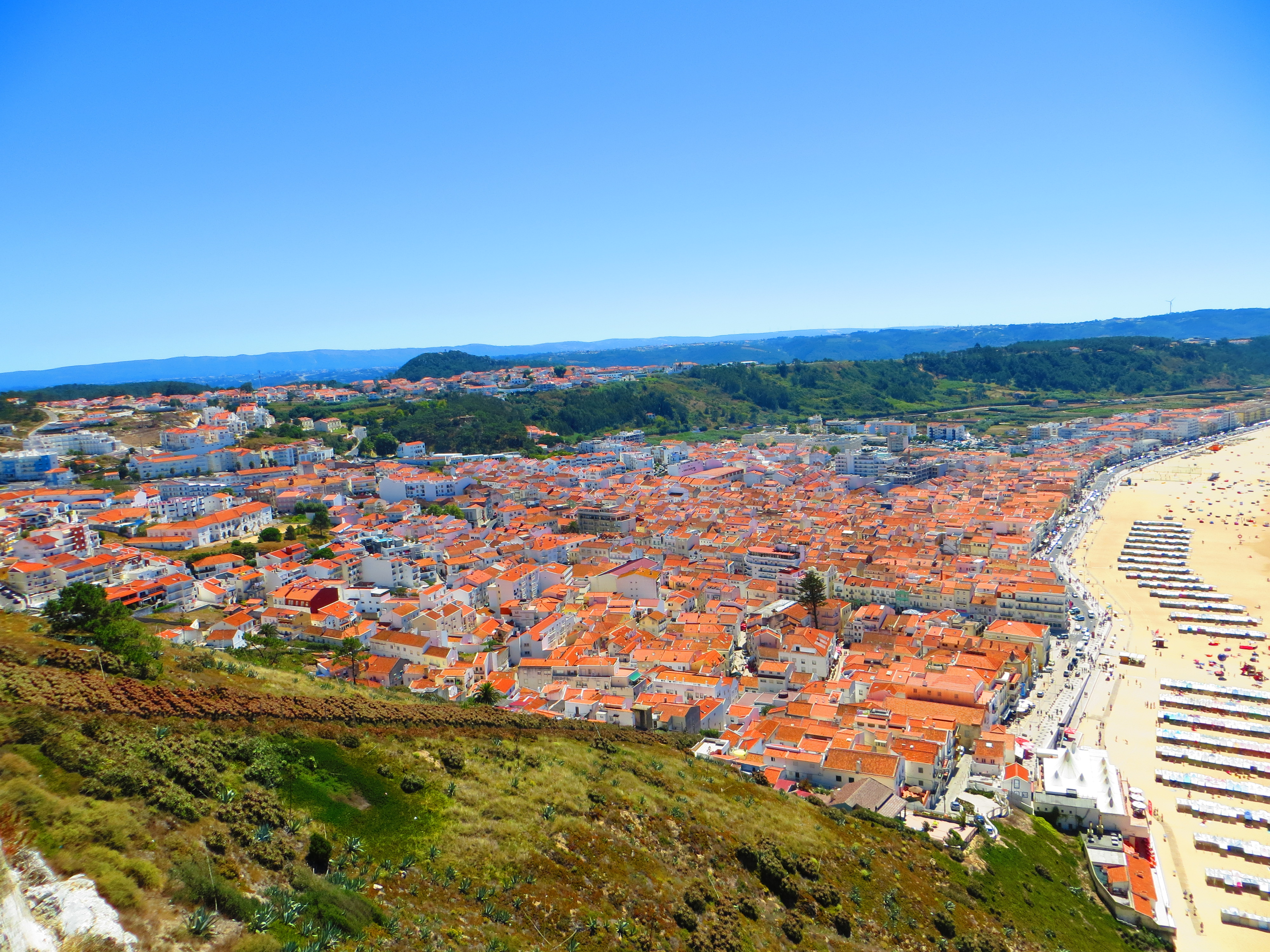 Panorama of Nazare